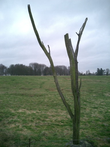 The Danger Tree at Neufundland Memorial Park (Photograph by Owen Franklin 2006)